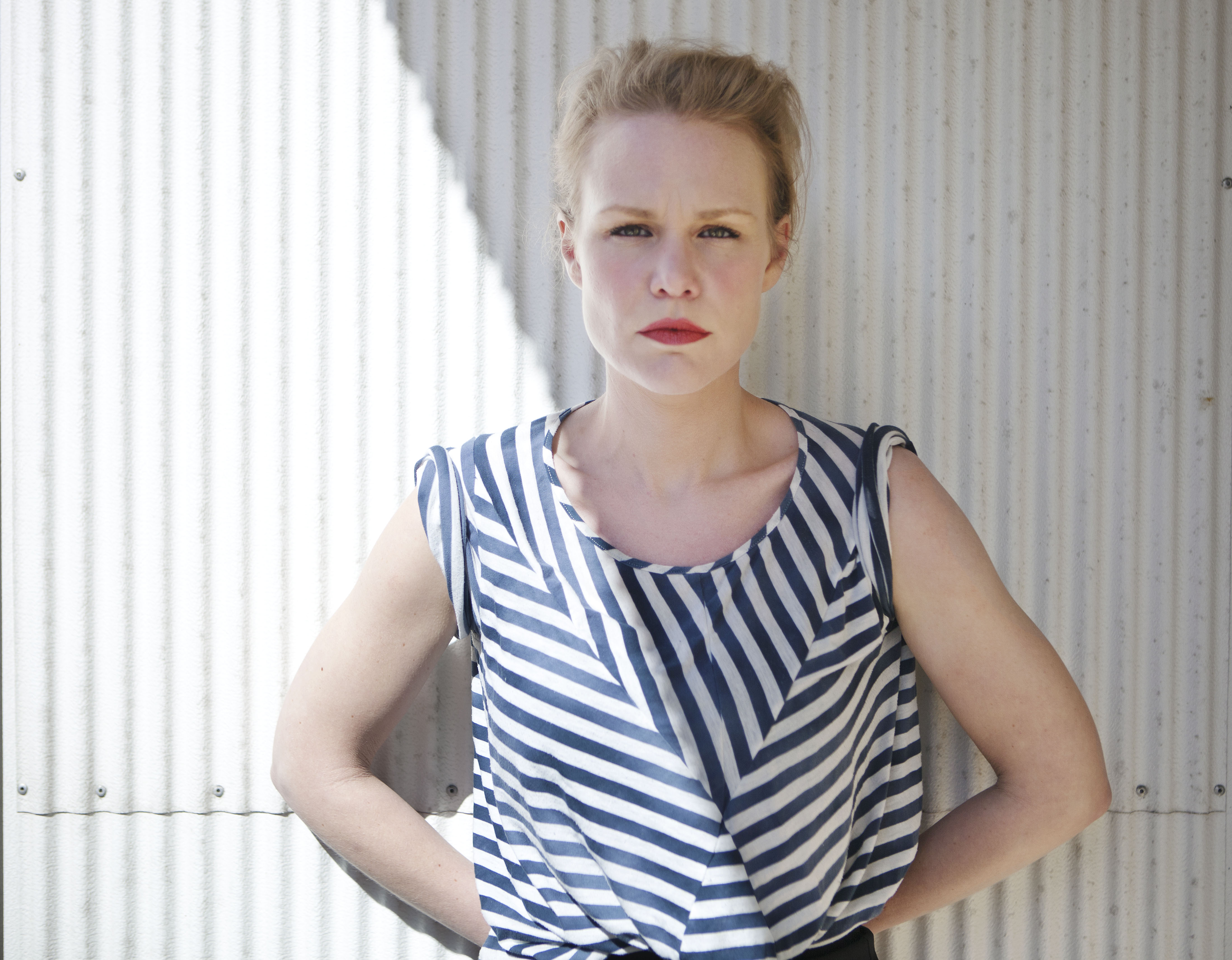 Hanna Nordenhök